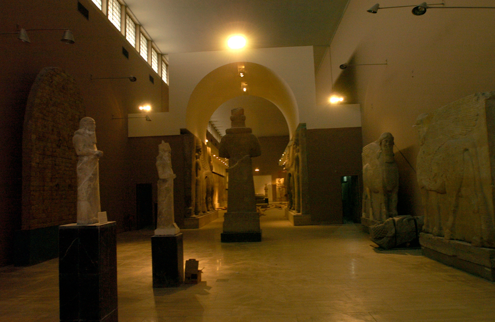 Exhibits and renovations inside the National Museum of Iraq.